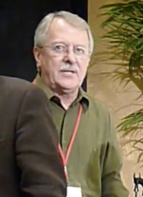 Gary Goldman before the CTN 2009 Seminar